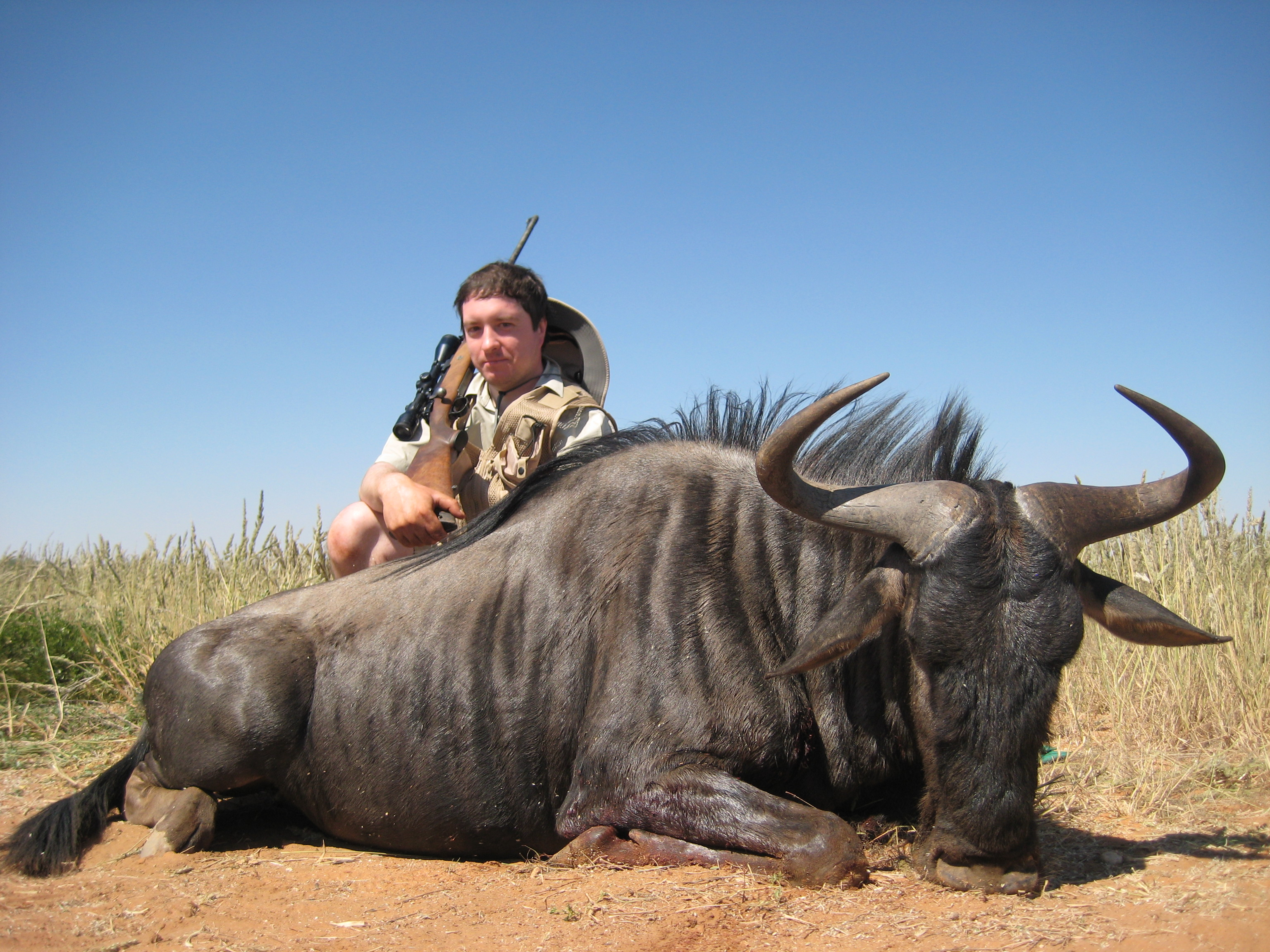 Wildebeest, Namibia